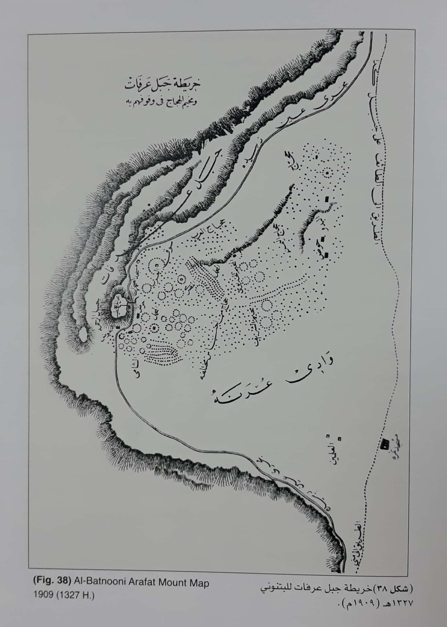 Muhammad Labib Al-Batnooni Arafat Mount Map 1909 (1327 H.).